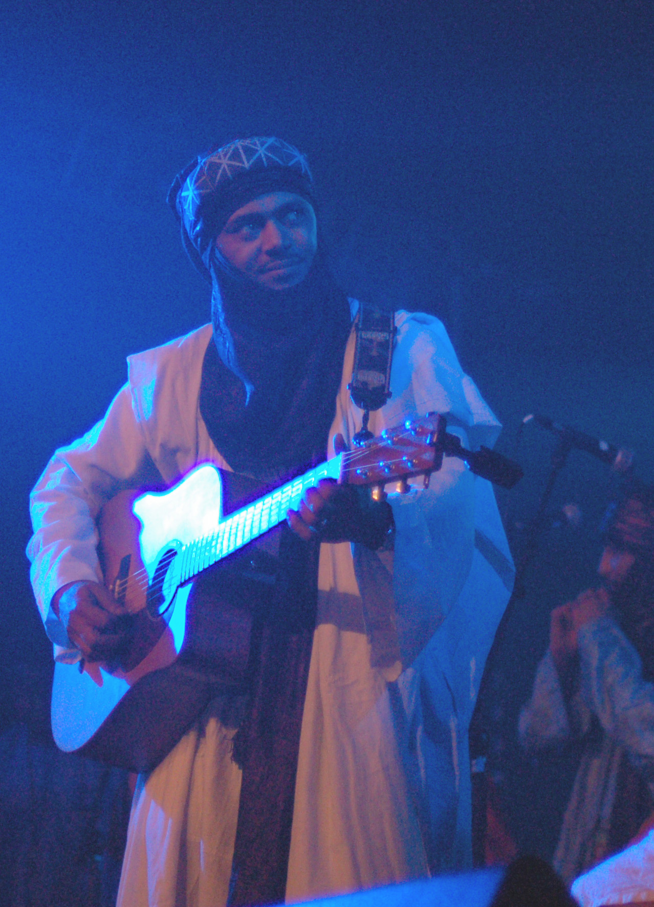 Abdallah Ag Alhousseyni alias "Catastrophe", from group Tinariwen